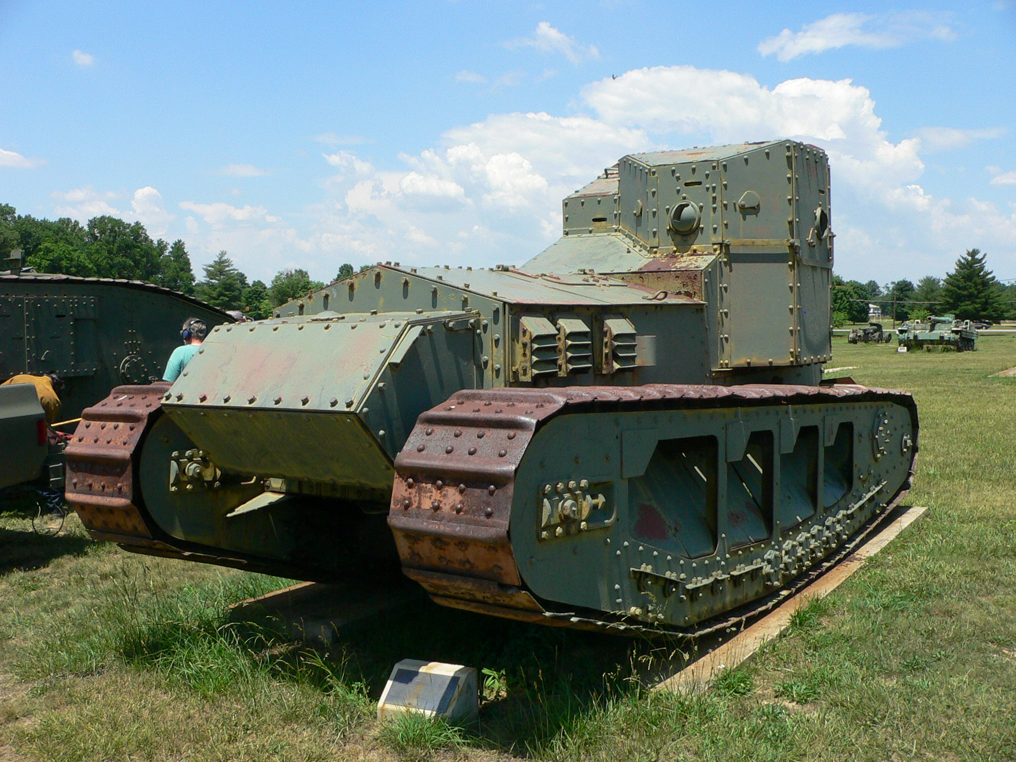 The Medium Mark A Whippet was a British tank of World War I. Intended to complement the slow Mark V tanks by using its relative mobility and speed in exploiting any break in the enemy lines. Country of origin:UKTechnical information: Length:6,10 m (20 ft)Weight:14 300 kg (31,460 lb)Width:2,62 m (8 ft 7 in)Powerplant:2x 45 hp (33,6 kW) Tylor four-cylinder petrol engineHeight:2,74 m (9 ft)Range:257 km (160 miles) Armament: Crew:3 or 4Armour:5-14 mm (0.2-0.55 in)Performance:max. road speed: 13,4 km/h (8,3 mph)Armament:2x Hotchkiss machine gun